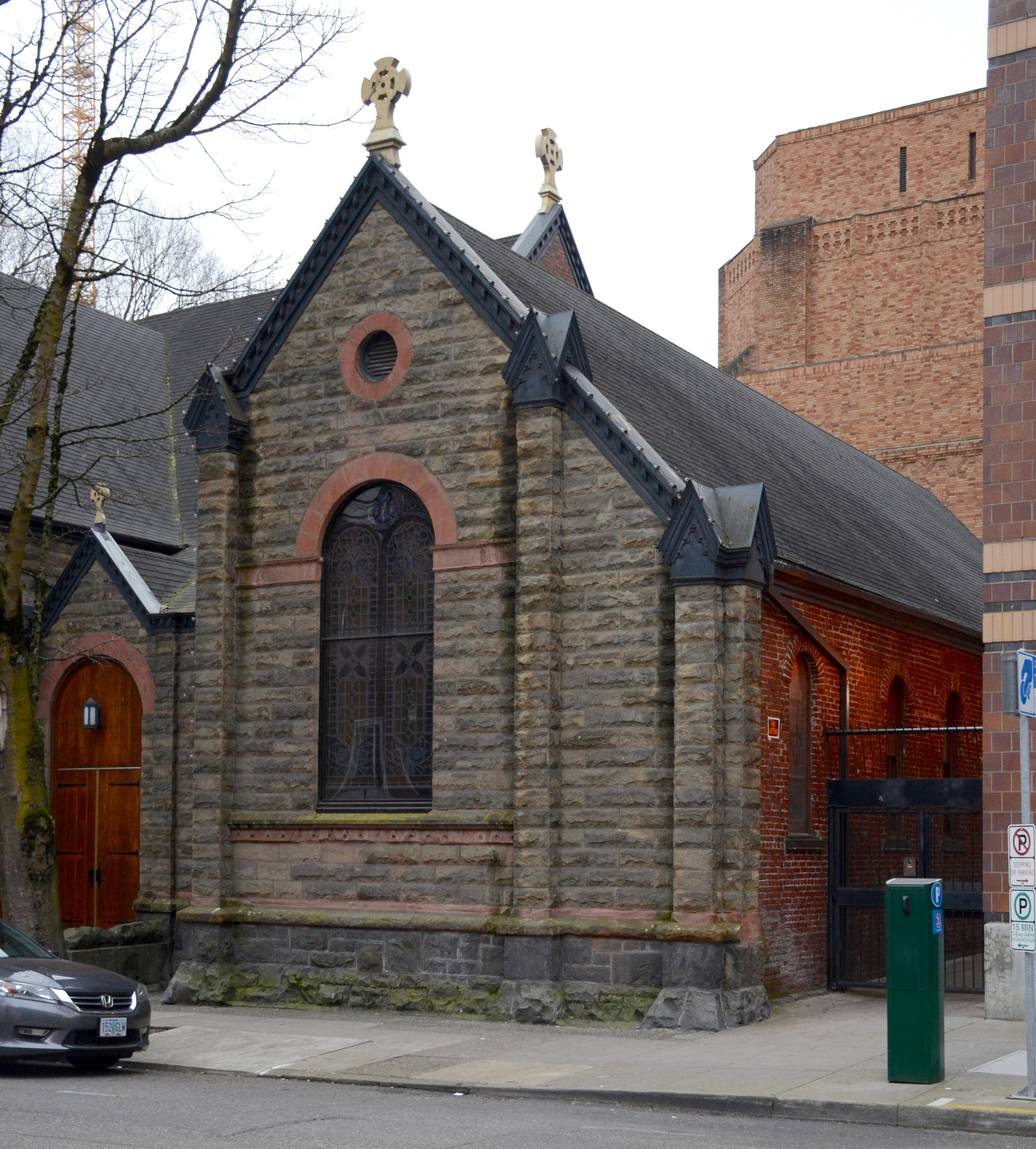 The Pioneer Chapel of St. James Lutheran Church, in Portland, Oregon, was built in 1891 and was the church's original sanctuary at this site. A new, larger building constructed in 1907–08 immediately to the east (just out of frame to the left) took over as the main sanctuary in 1908. This view is from the north, across S.W. Jefferson Street.